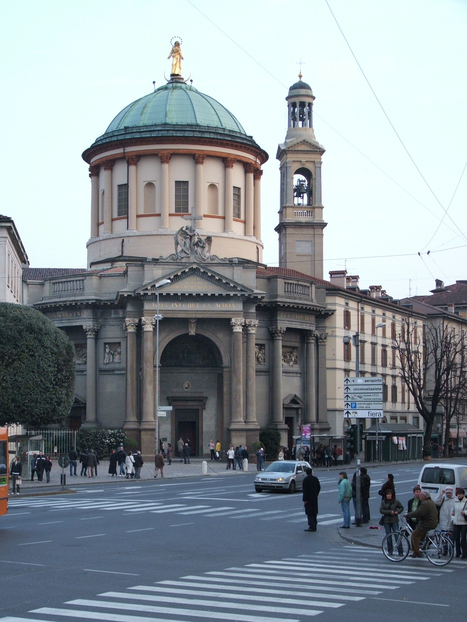 Church of Santa Maria delle Grazie - Bergamo - Italy